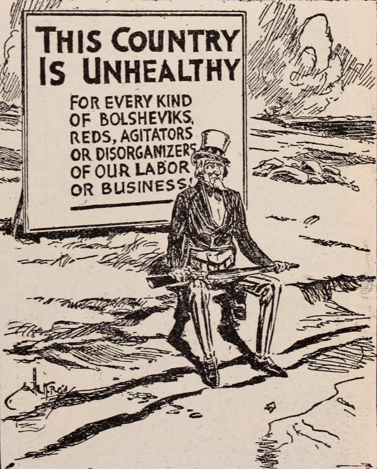 Title: Baltimore and Ohio employees magazine Year: 1912 (1910s) Authors: Baltimore and Ohio employees magazine Baltimore and Ohio Railroad Company Subjects: Baltimore and Ohio Railroad Company Publisher: (Baltimore, Baltimore and Ohio Railroad) Text Appearing Before Image: (Copyright, 1919. New York Tribune, Inc.) by the Cartoonists Text Appearing After Image: —From LAsino, Italy —Reid, in The Camden (N. J.) Post-Telegraph 29 Federal Managers Galloway and Begien are Making SpecialEffort to Reduce Automobile Accidents at Grade Crossings Our Federal Managers are much concerned over the distressing number ofpeople who are annually killed or injured while driving automobiles over rail-road crossings. They have been able to be of material assistance in spreadingthe doctrine of safety and caution among our own employes through theeducational work of the Safety Department and the untiring efforts of ourofficers in the Transportation Department. It is difficult, however, to reach many people in a way direct enough tobring them to a realization of the loss of life which is caused by their failureto take proper precaution to insure their safety before crossing railroad tracks.The tests and observations covering a number of years have been given closeanalysis, resulting in conclusion being reached that if the drivers of automo-biles will only abid